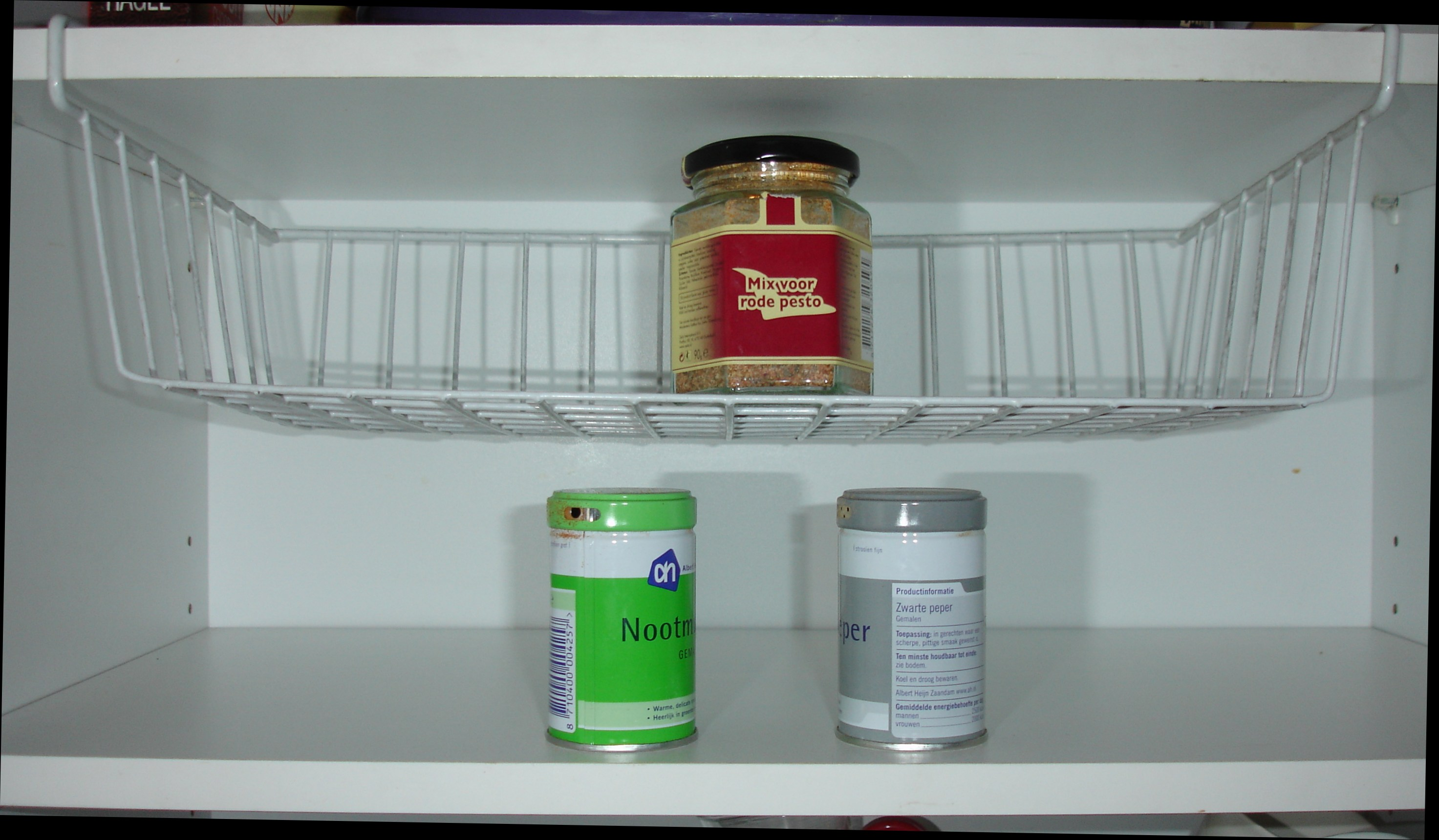 "Barbertje", a small additional shelf.